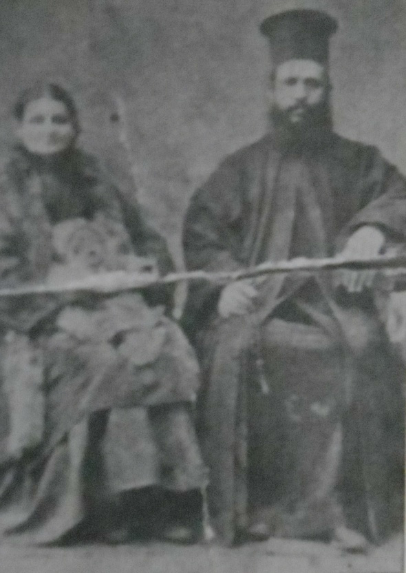 Stoyan Mokrev Enidzhe Vardar